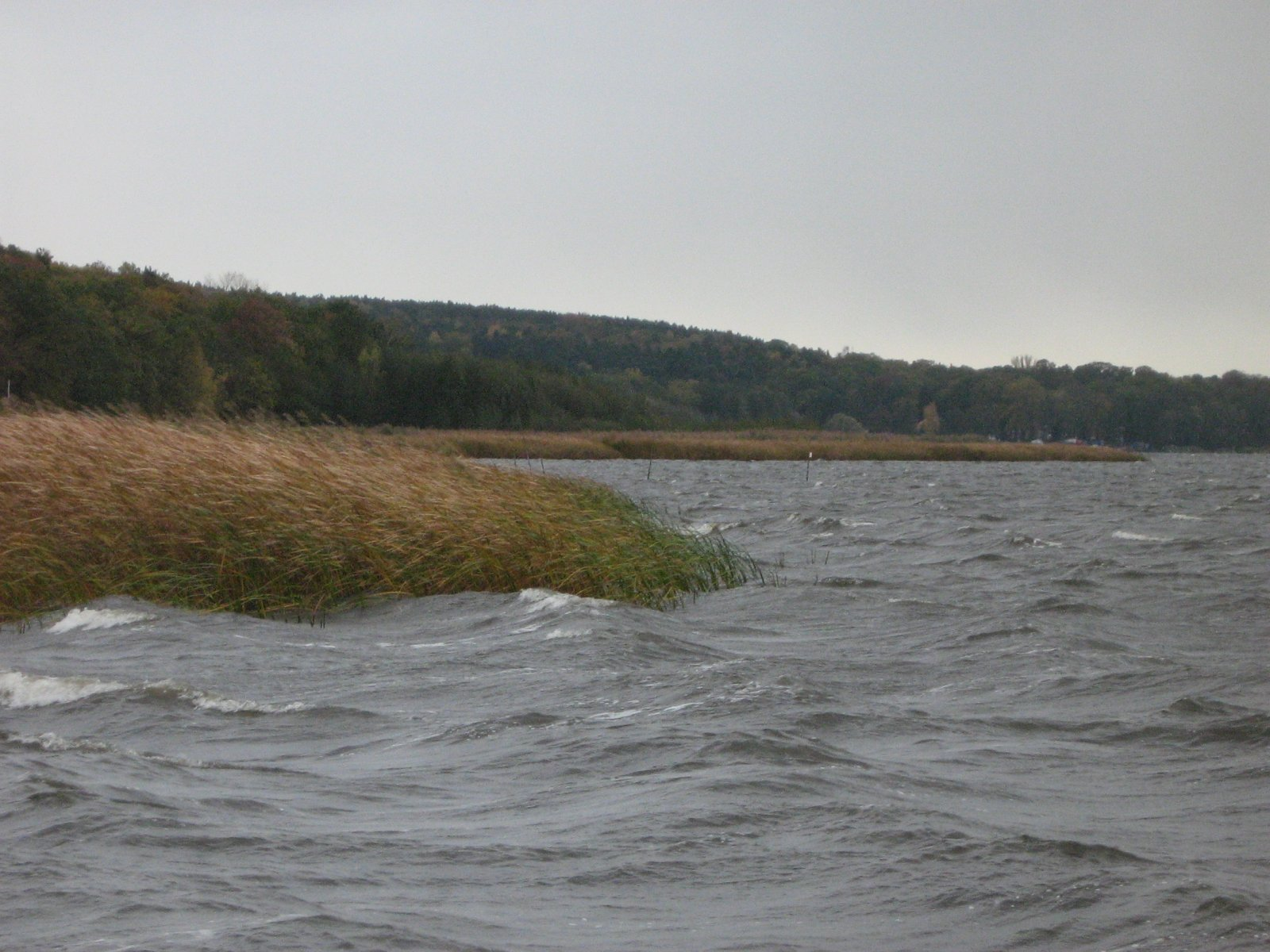 The Lake "Schwielowsee" (River Havel) in Brandenburg (Germany).